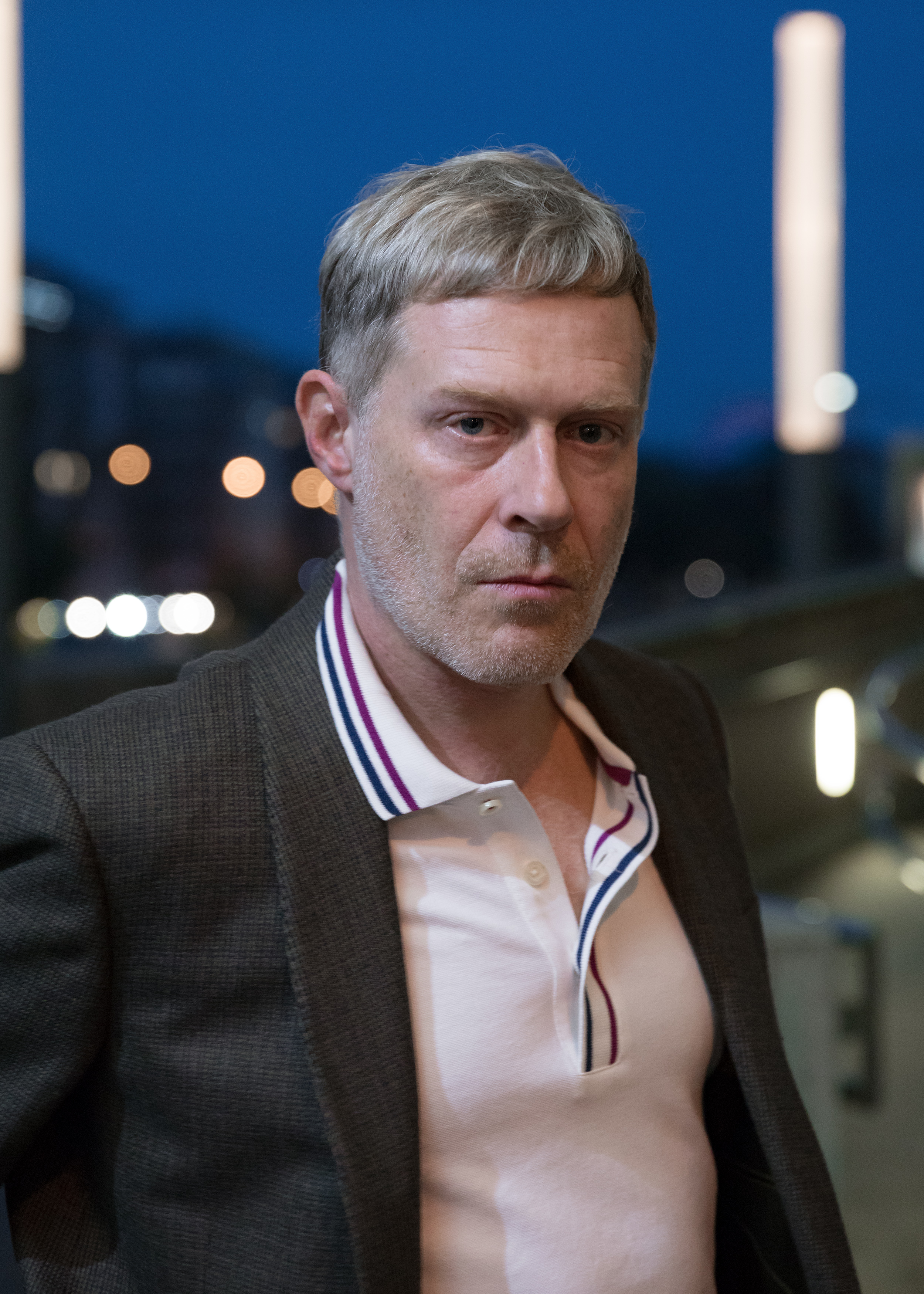 Andreas Lust (Casting) at the Vienna International Film Festival 2017 (Urania, Vienna, Austria).